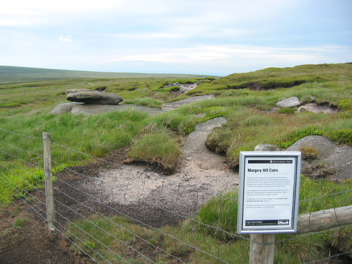 The cairn on Margery Hill, which has recently been discovered to be a Bronze Age burial mound.